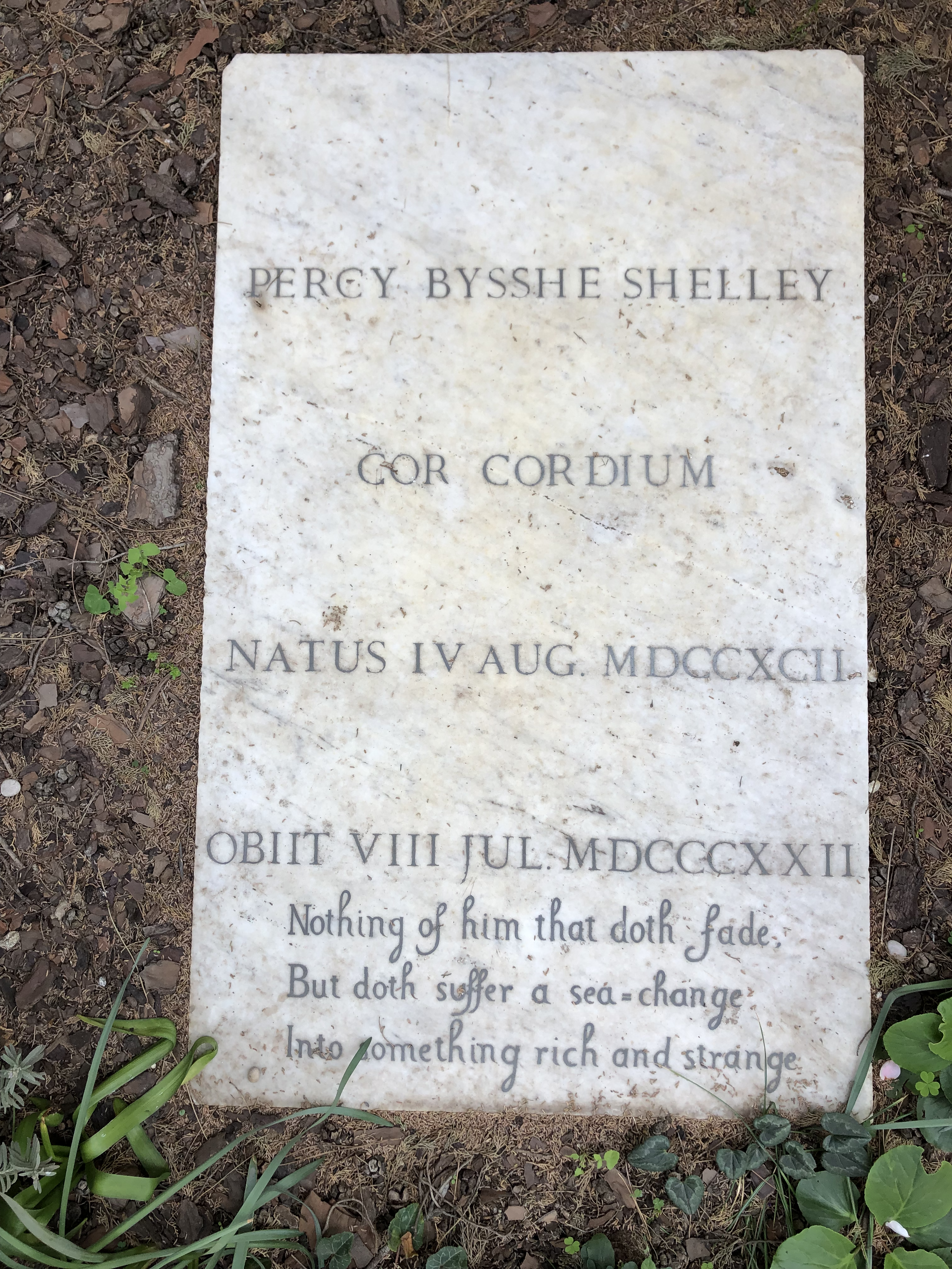 Percy Bysse Shelley's grave in Rome